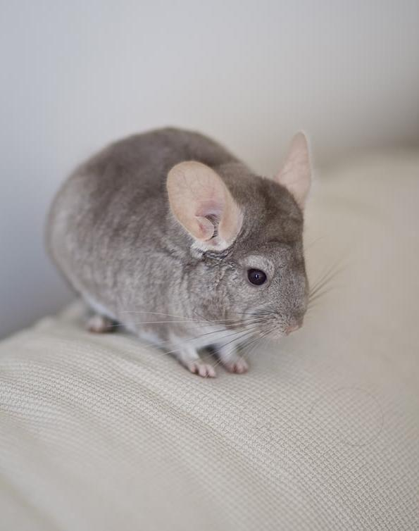 Chinchilla, by Justin Qian.